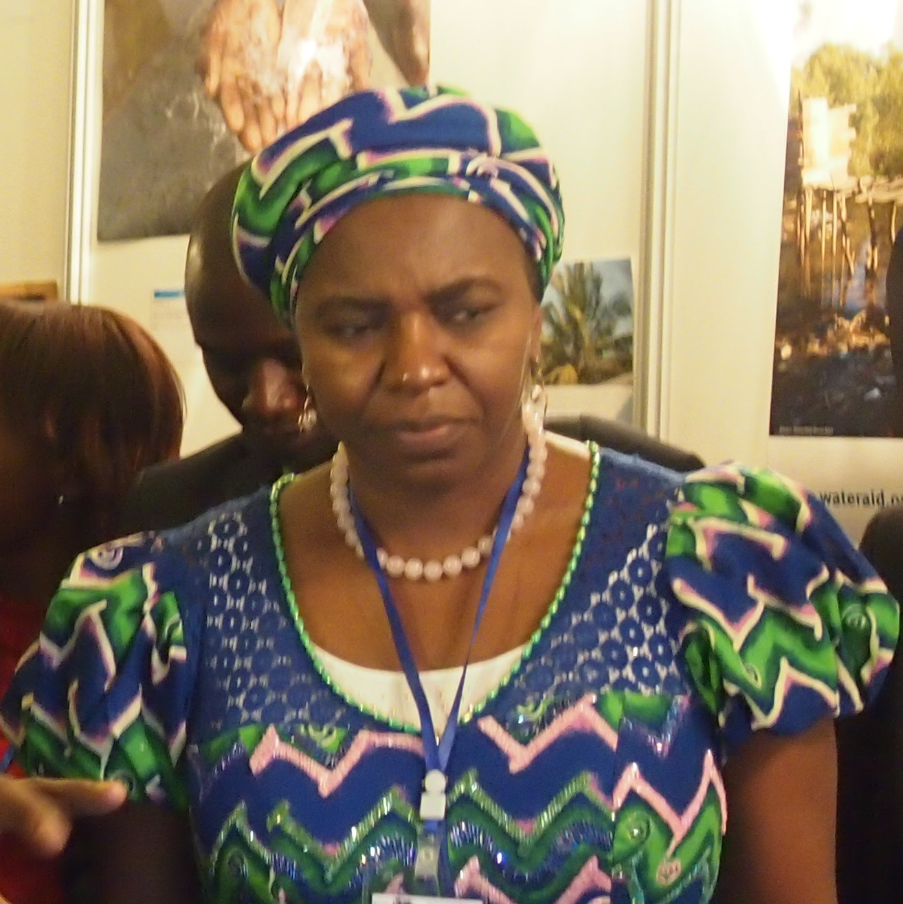 WaterAid's Mariame Dem speaking to E Pape Diouf, Minister for Water & Sanitation, Senegal with AMCOW Interim President: Hon Sarah Reng Ochekpe